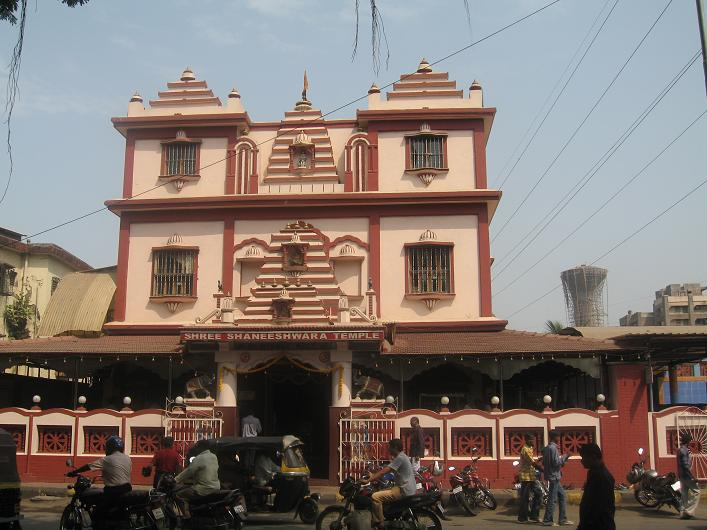 Photo clicked by self